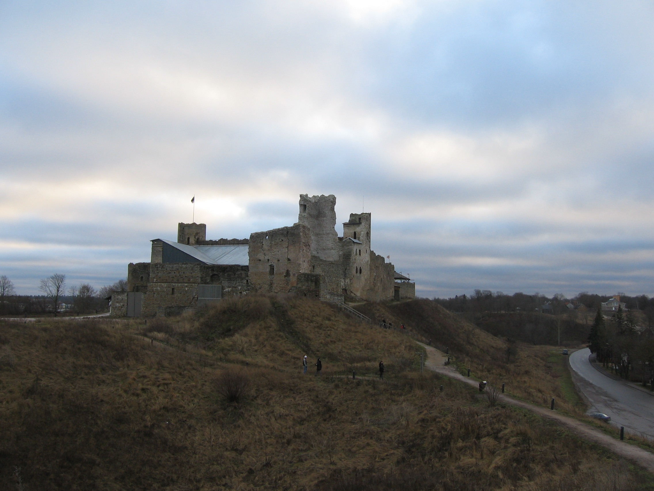 Rakvere castle